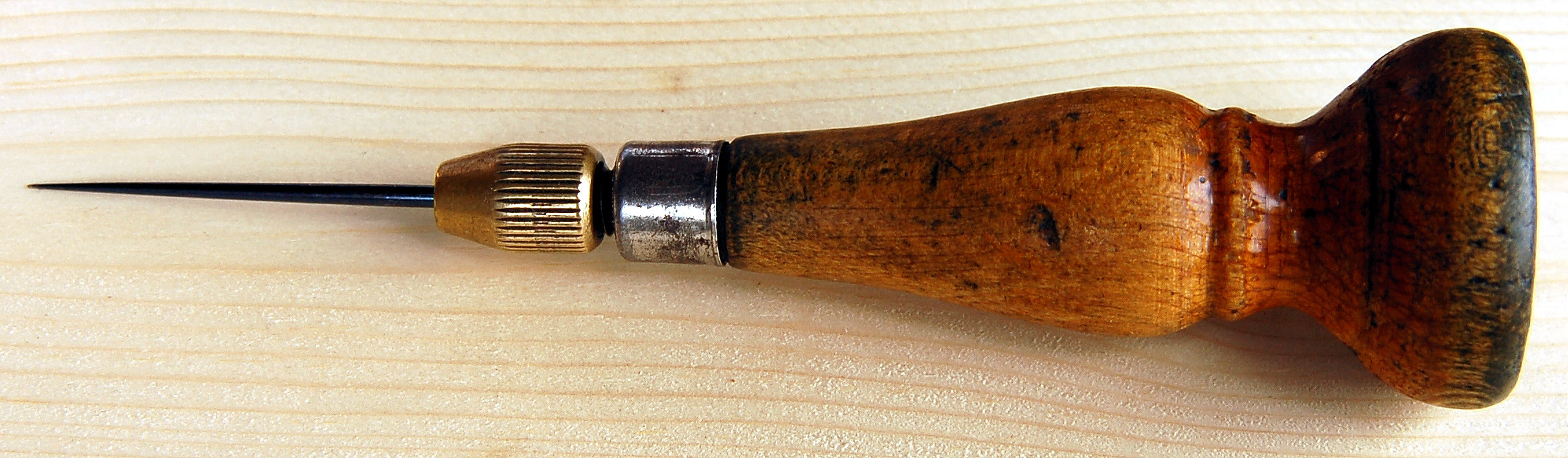 typesetter's awl